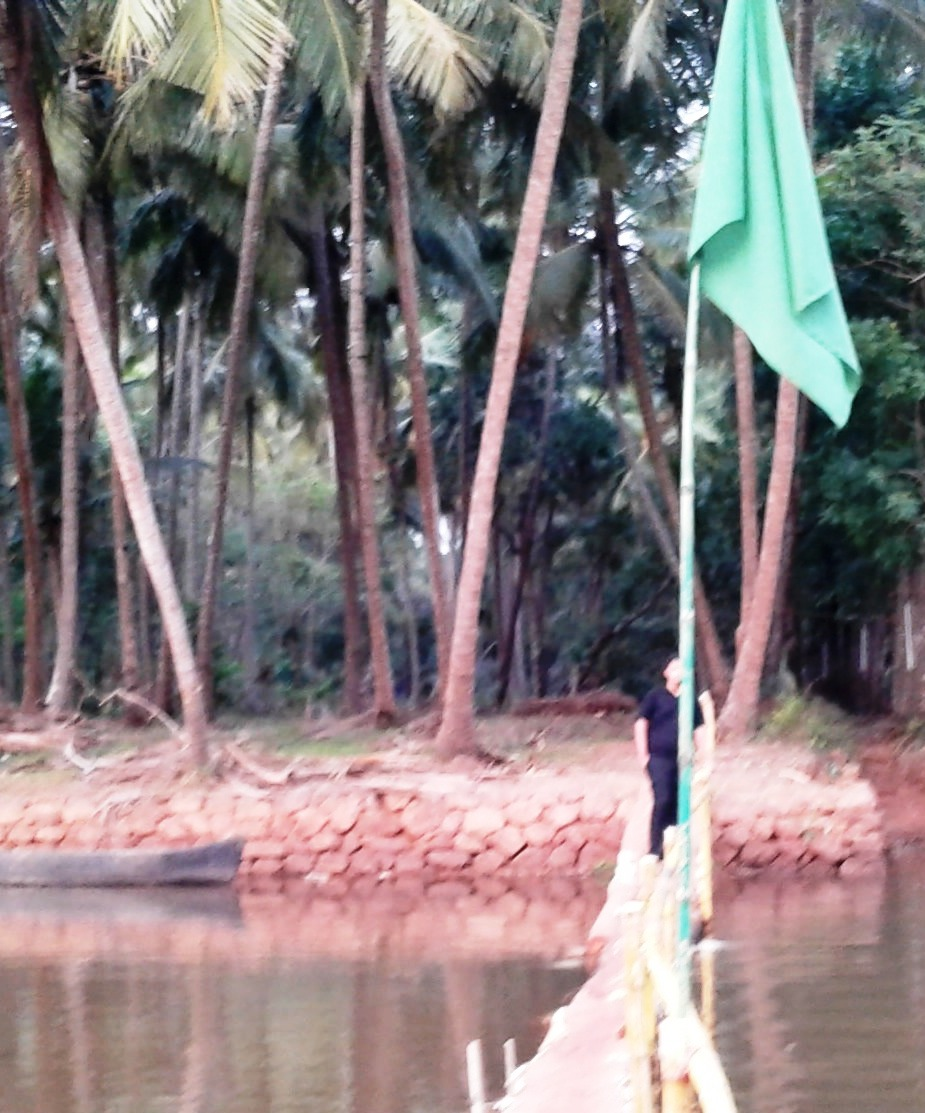 Kasaragod district, Kerala, India. (This bridge can be accessed by walking on the back of Kannur Dargah near Mayippadi. There is a road access from the opposite side connecting to Kambar village near Mogral Puthur on the Kasaragod-Mangalore highway)